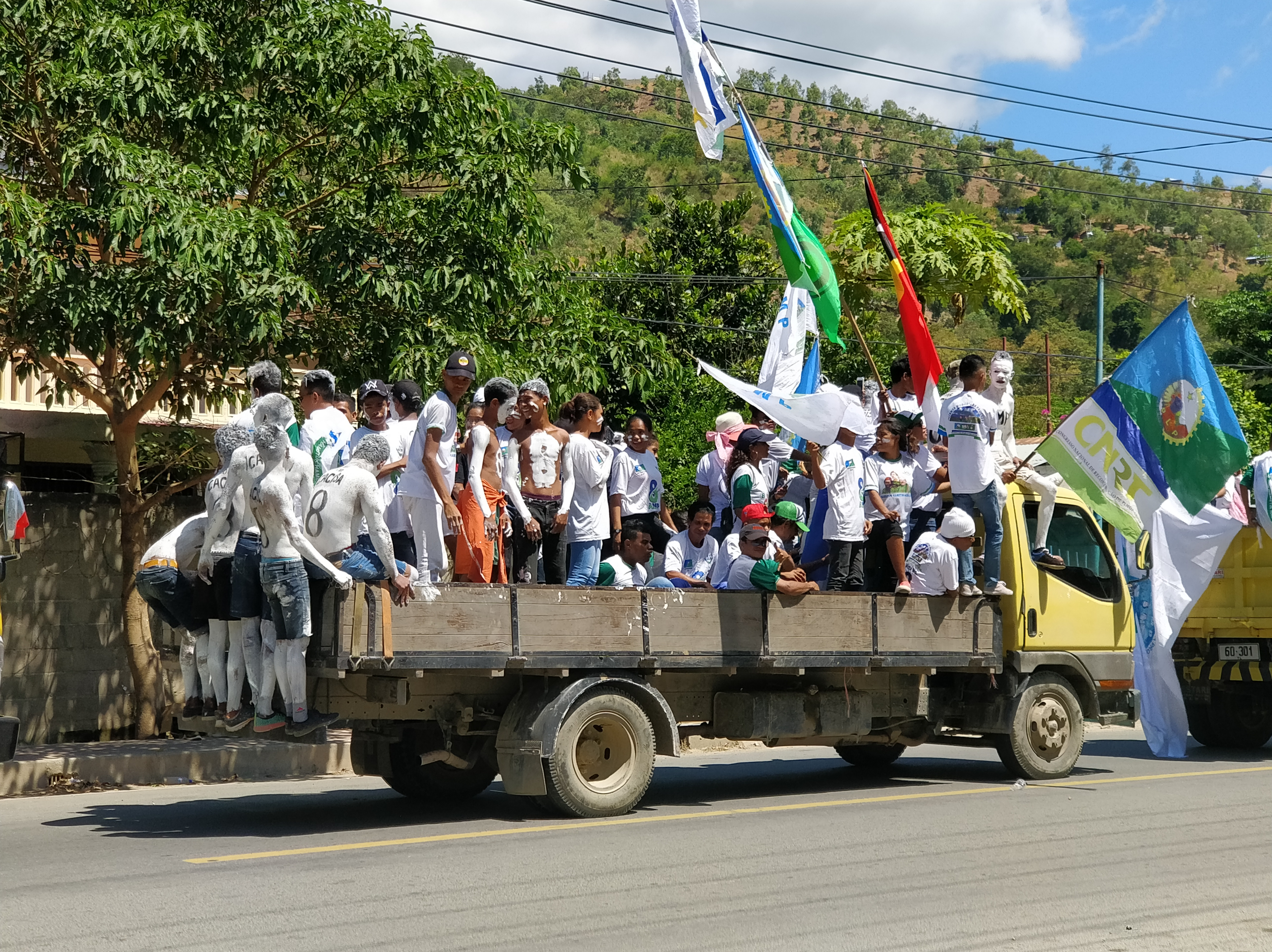 AMP and CNRT supporters during rally on Balide Avenue, Dili, Timor-Leste